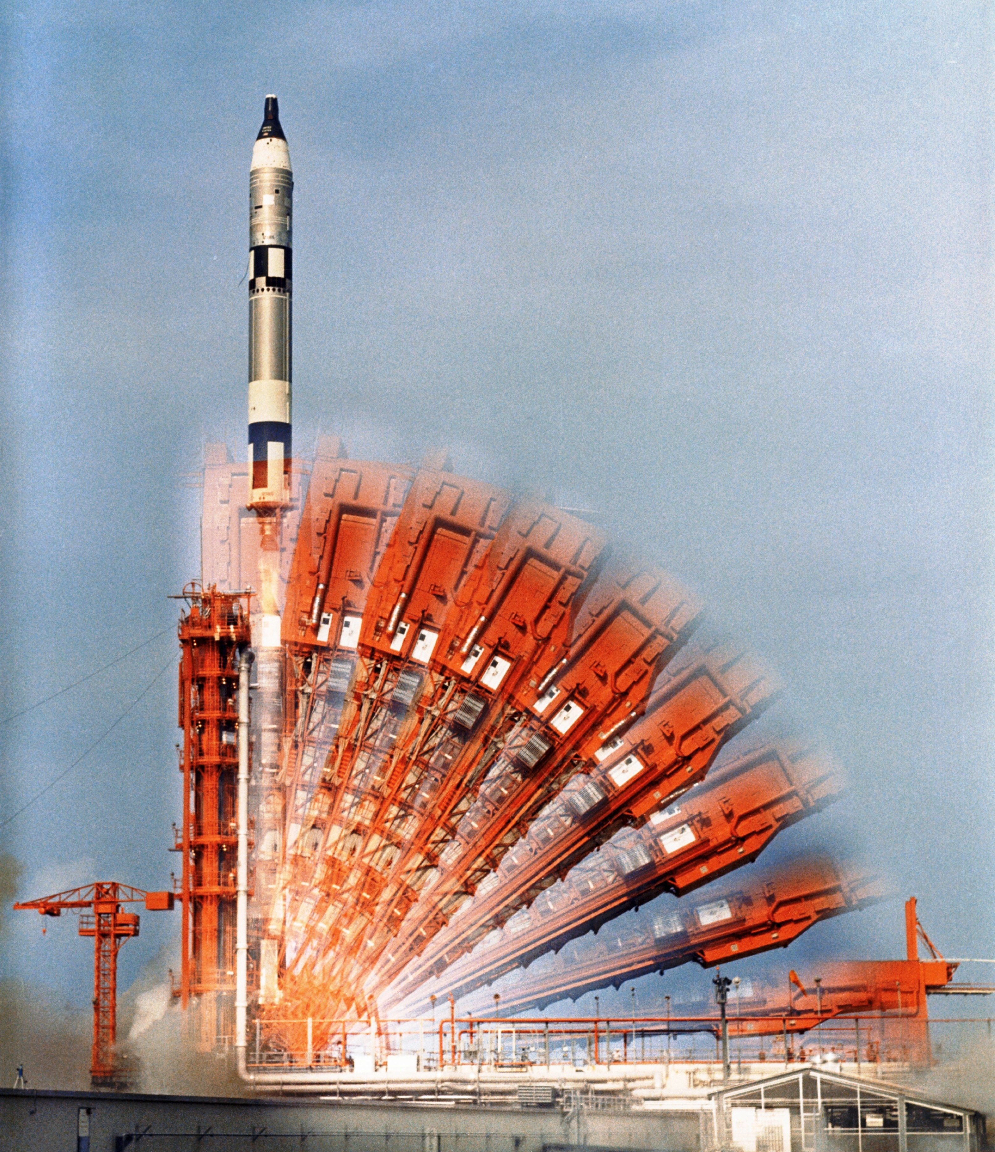 A time-lapse photograph shows the configuration of Pad 19 up until the launch of Gemini 10. Onboard the spacecraft are John W. Young and Michael Collins. The two astronauts would spend almost three days practicing docking with the Agena target vehicle and conducting a number of experiments.